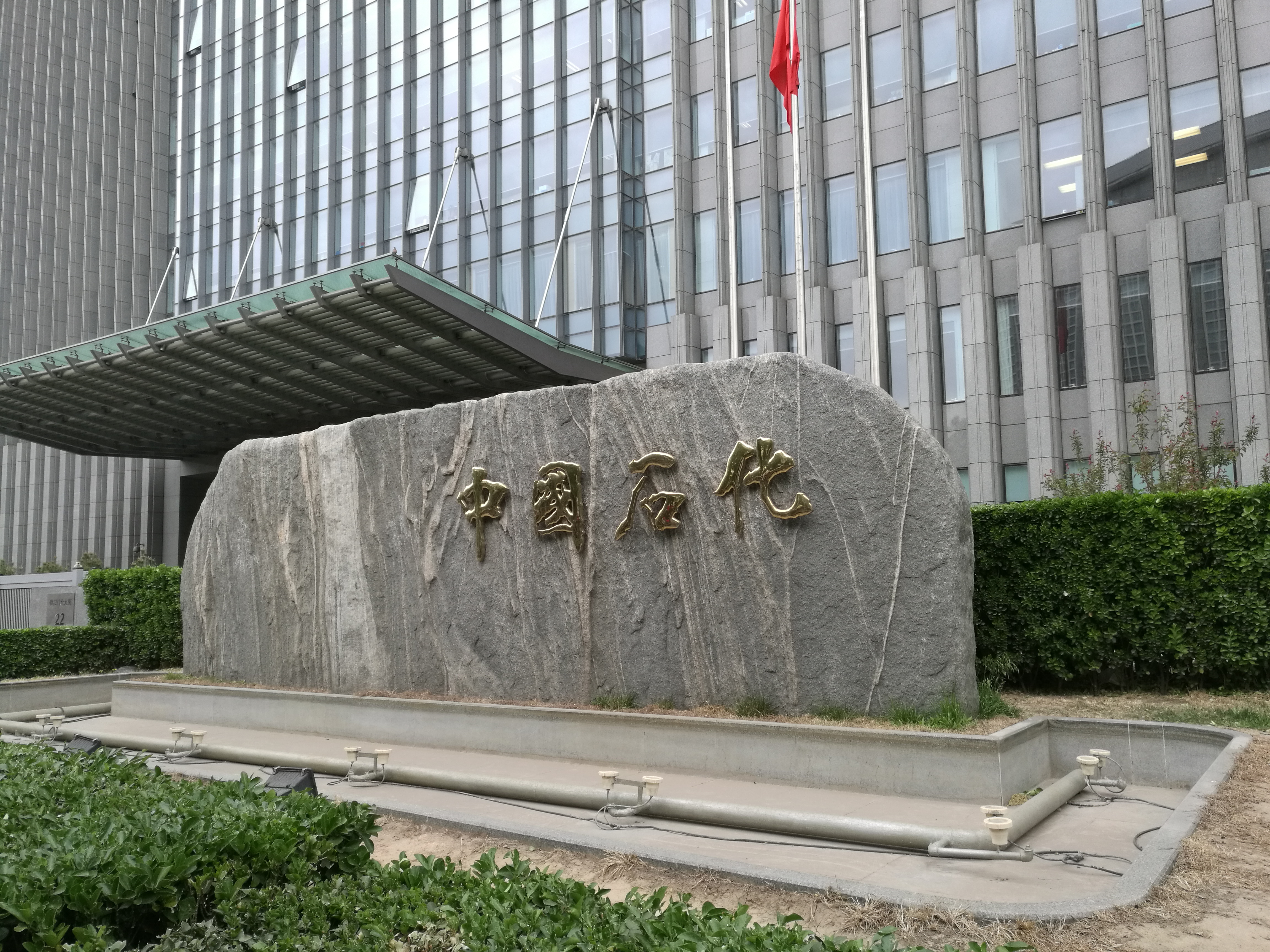 SINOPEC HQ